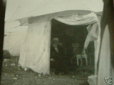 Samaritan in his tent, camp near Mount Gerizim